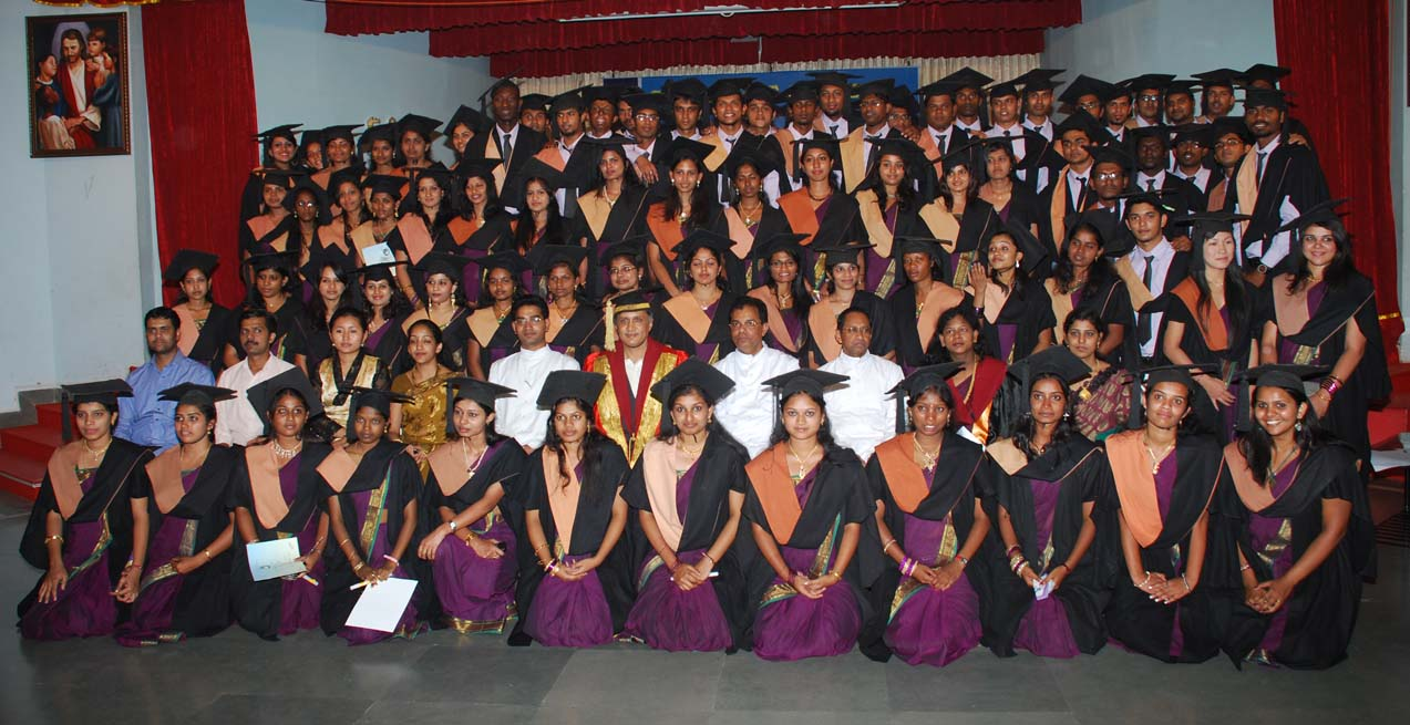 students